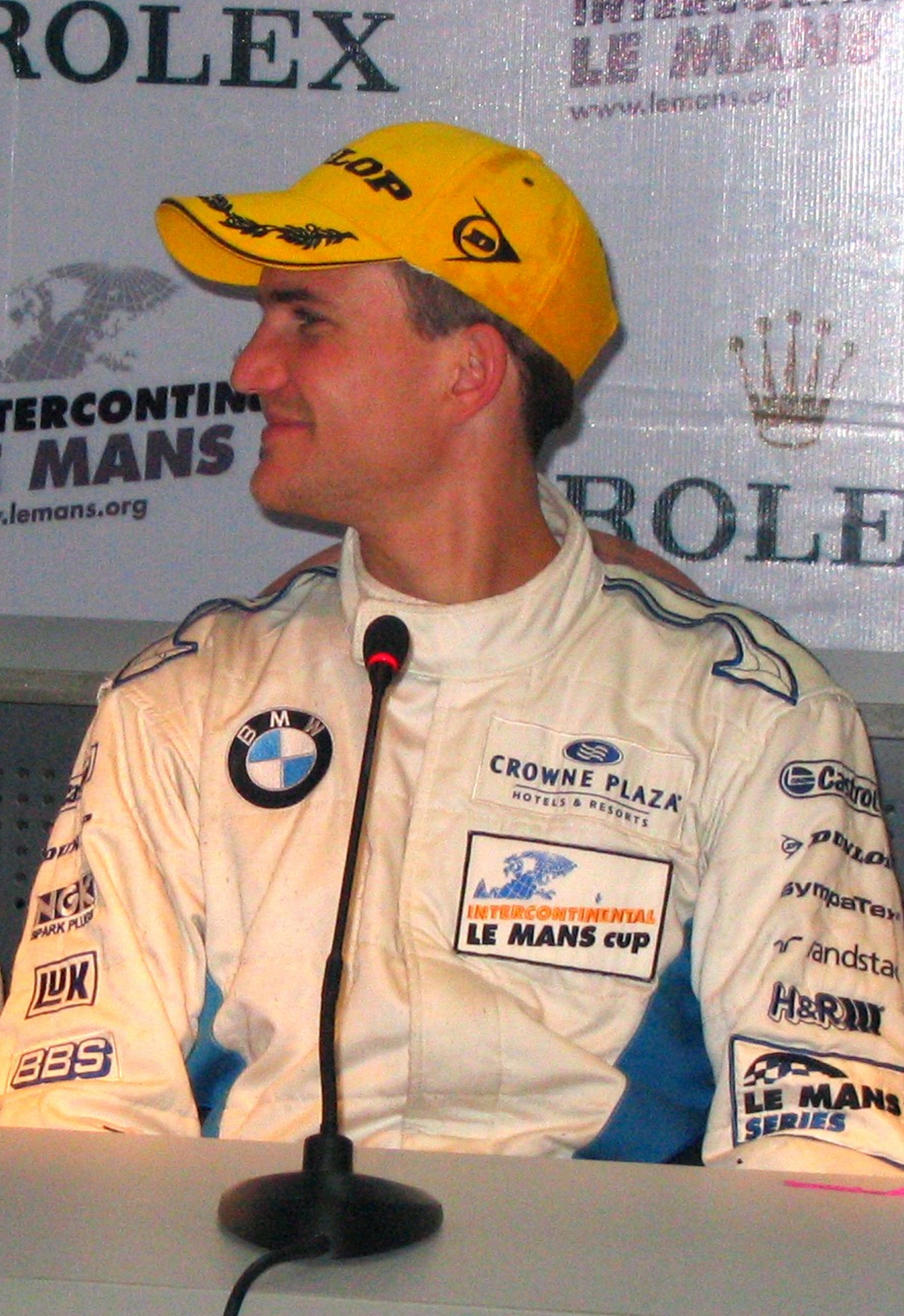 BMW M3 GTR drivers Jörg Müller (left) and Dirk Werner (right) at the post race press conference in Zhuhai after the Intercontinental Le Mans Cup race.